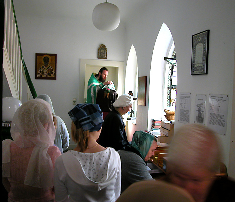 Priest hearing confessions before Liturgy. Holy Protection church, Düsseldorf